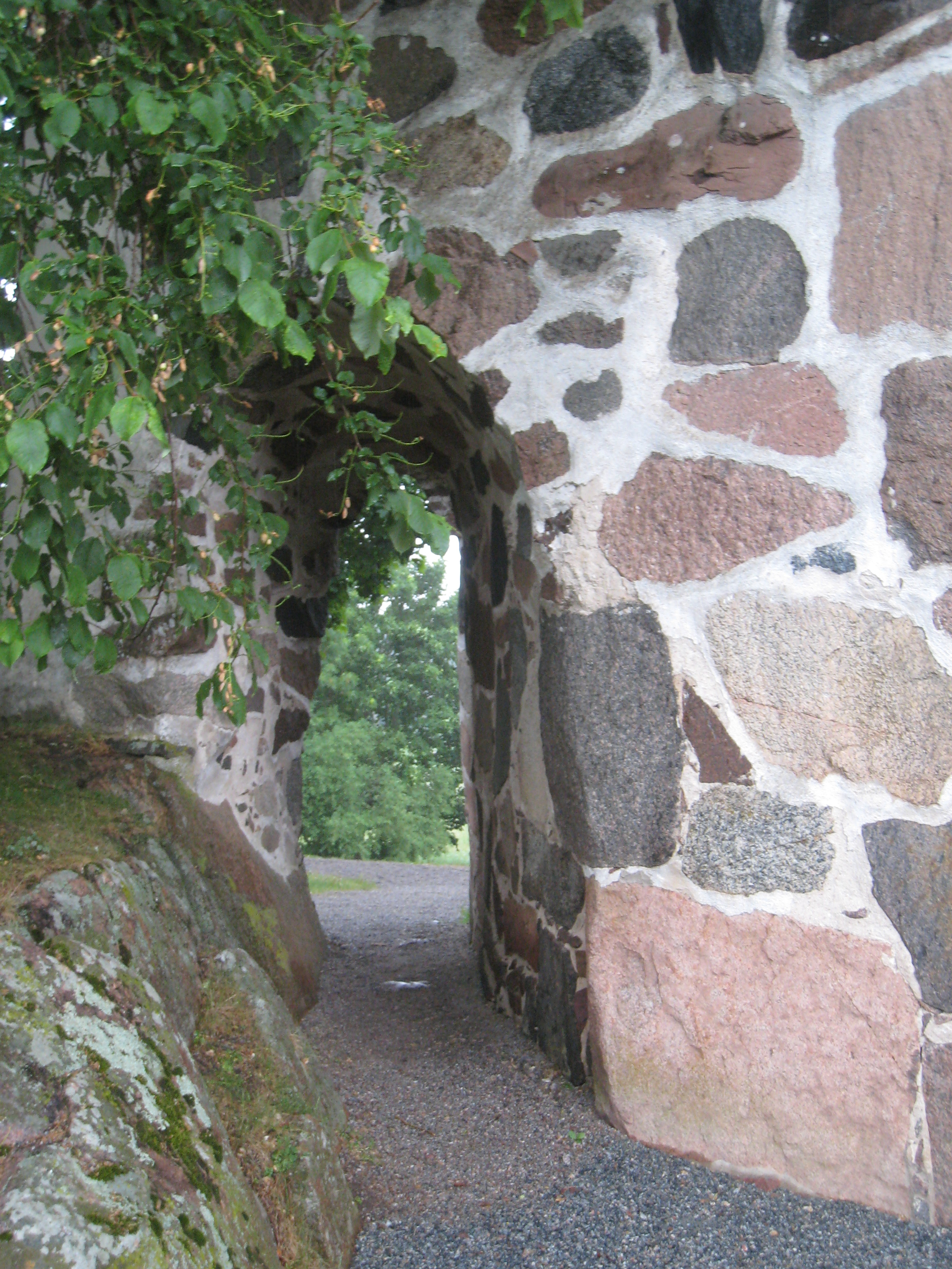 Häverö church, Norrtälje Municipality, the North West corner